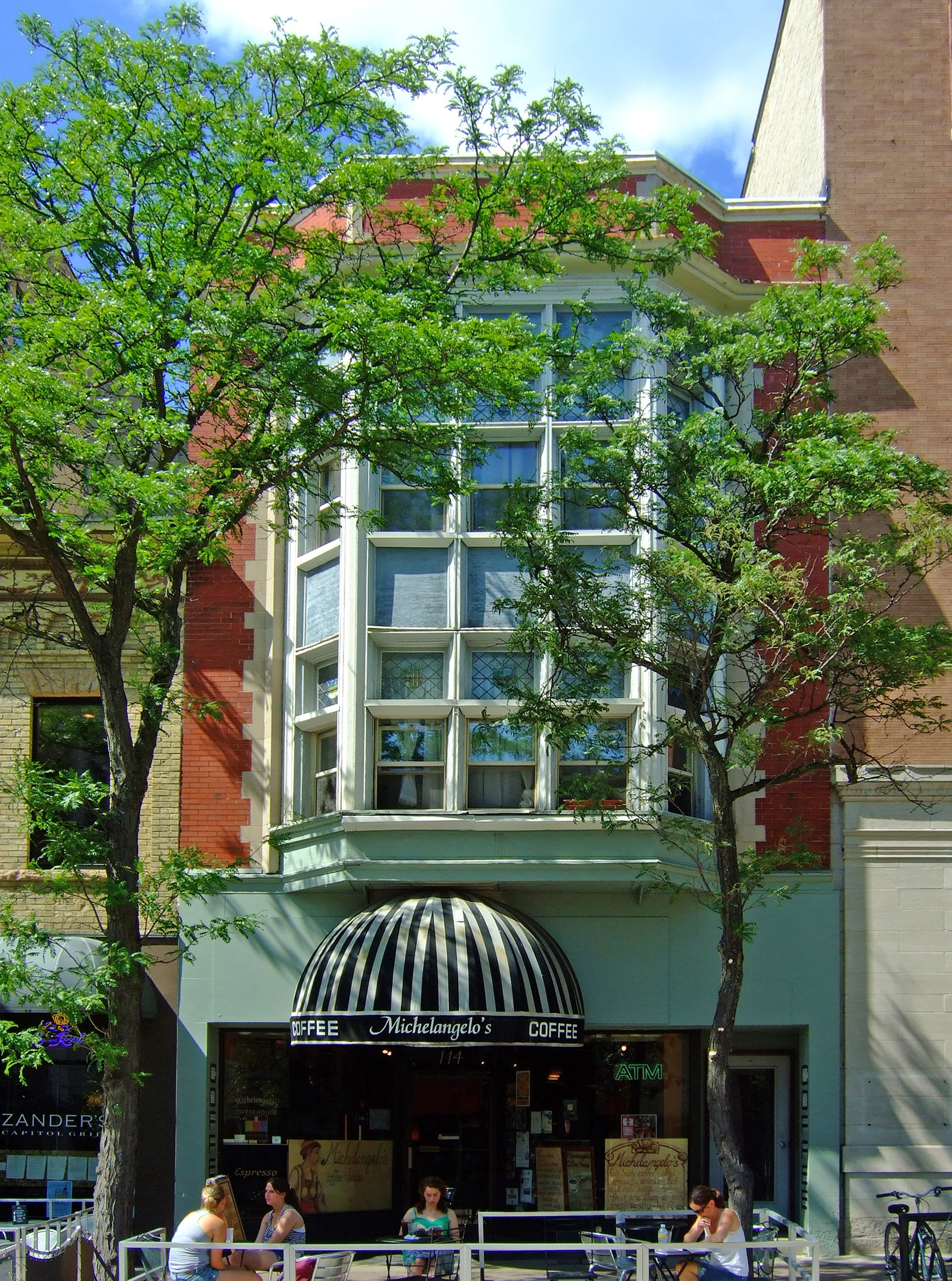 The Lamb Building (1905) at 114 State Street in Madison, Wisconsin, was added to the National Register of Historic Places in 1984. With its two-story bays, leaded glass detail, and original Carroll Street storefront, this is one of Madison's best remaining adaptations of the Queen Anne style to commercial architecture. Constructed for retired attorney F. J. Lamb, the building was designed by Claude and Starck. The building has been used for a variety of commercial purposes.